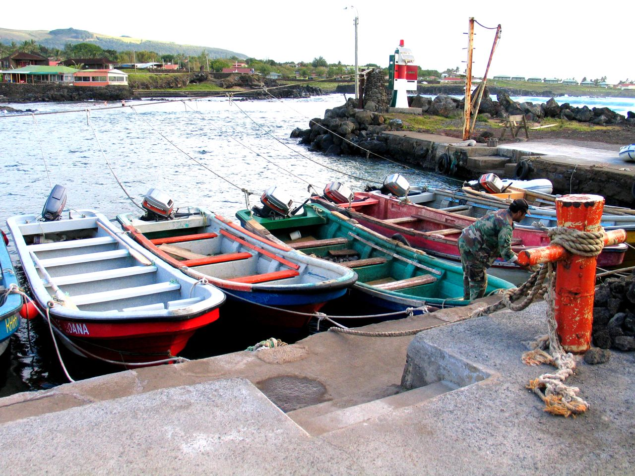 Easter Island Fishing Boats